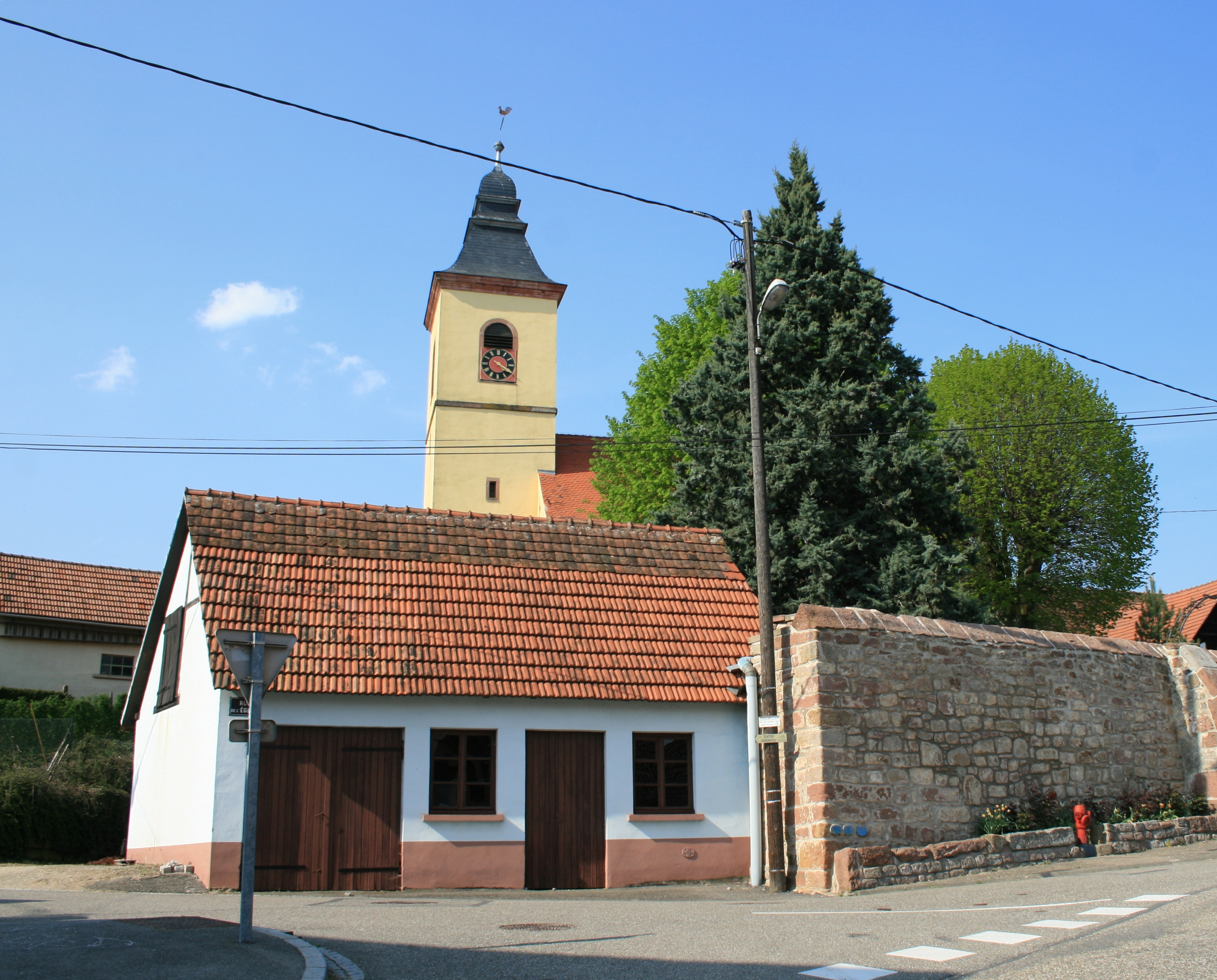 Rott, Alsace